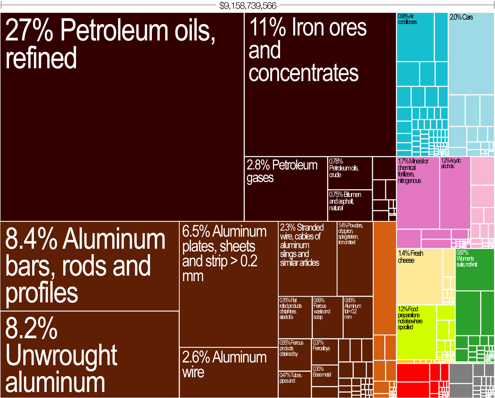 Treemap of Bahrainian Exports for 2010